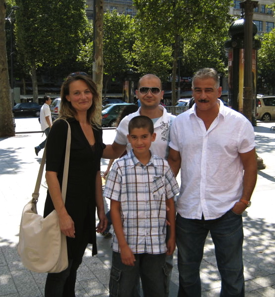 Hossein Nassim, with wife Regina, sons Nick and Bobby